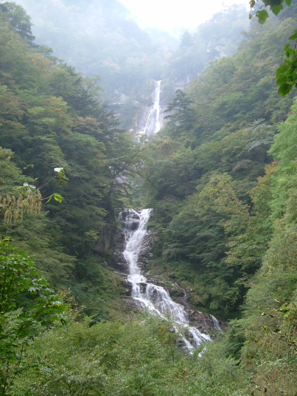 Kita-Shojigataki Waterfall